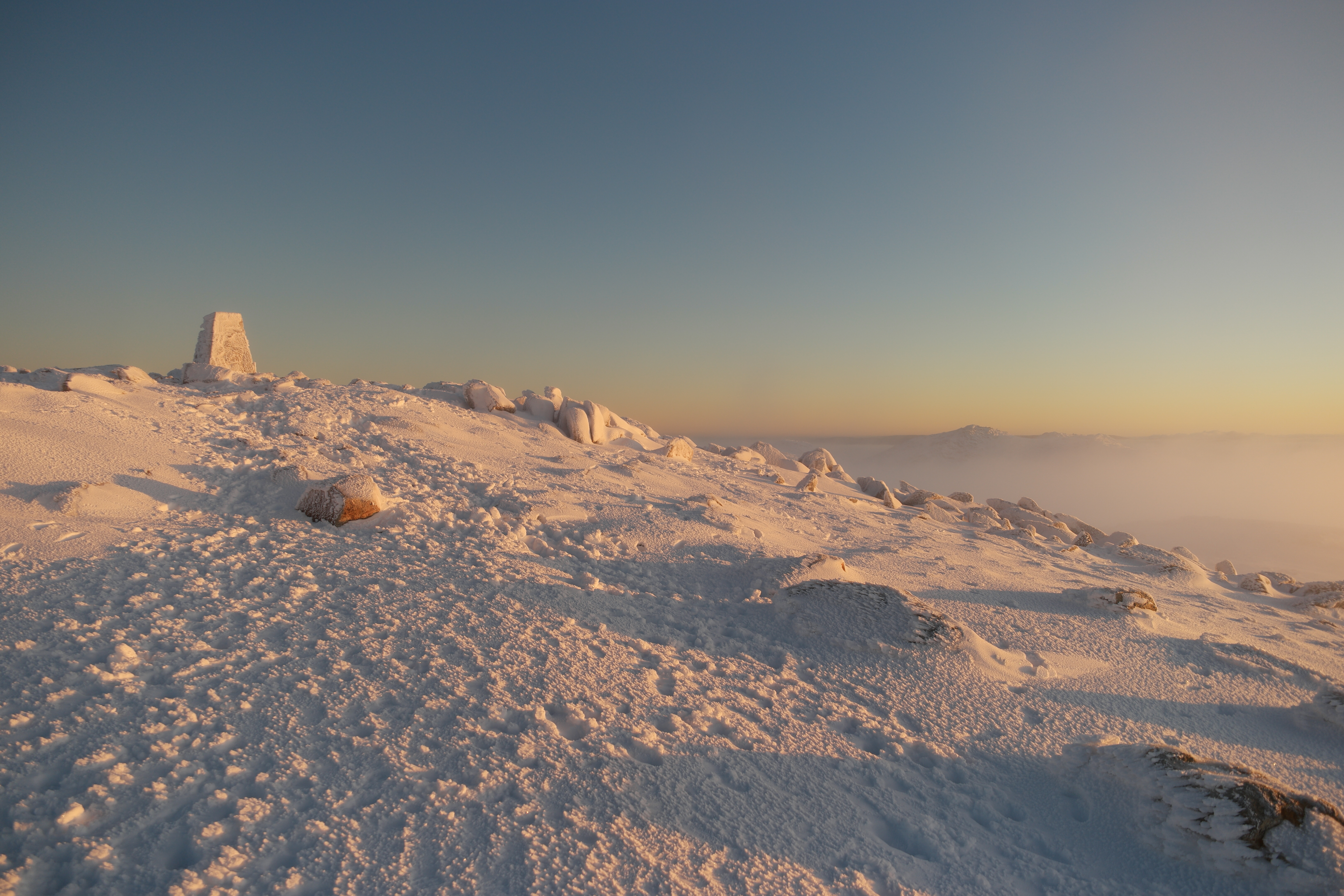 Sunrise views from the summit of Mount Kosciuszko, Kosciuszko National Park, New South Wales, Australia.